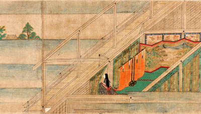 Lady Murasaki Shikibu at the Ishiyamadera.